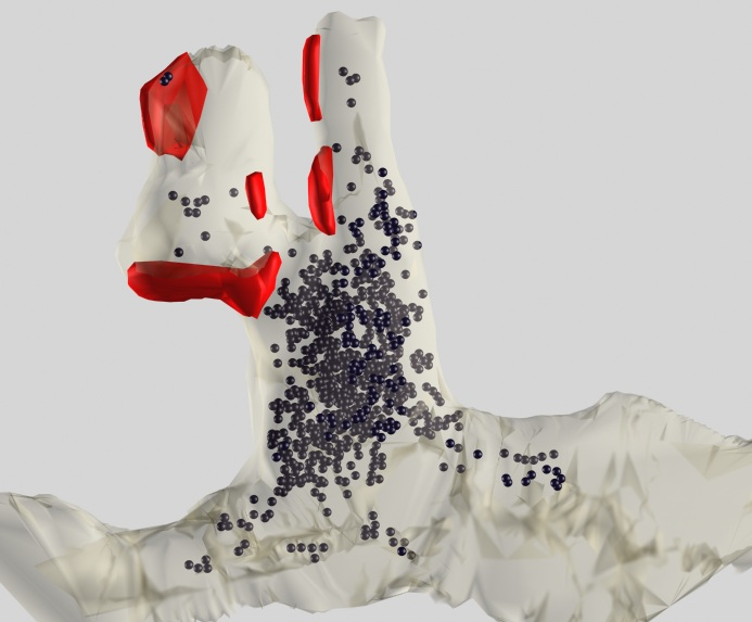 Three-dimensional reconstruction of the complex dendritic spine, showing the multiple macular synapses (red) and massive aggregation of polyribosomes (black). (Rat, ventrobasal thalamic nucleus.)